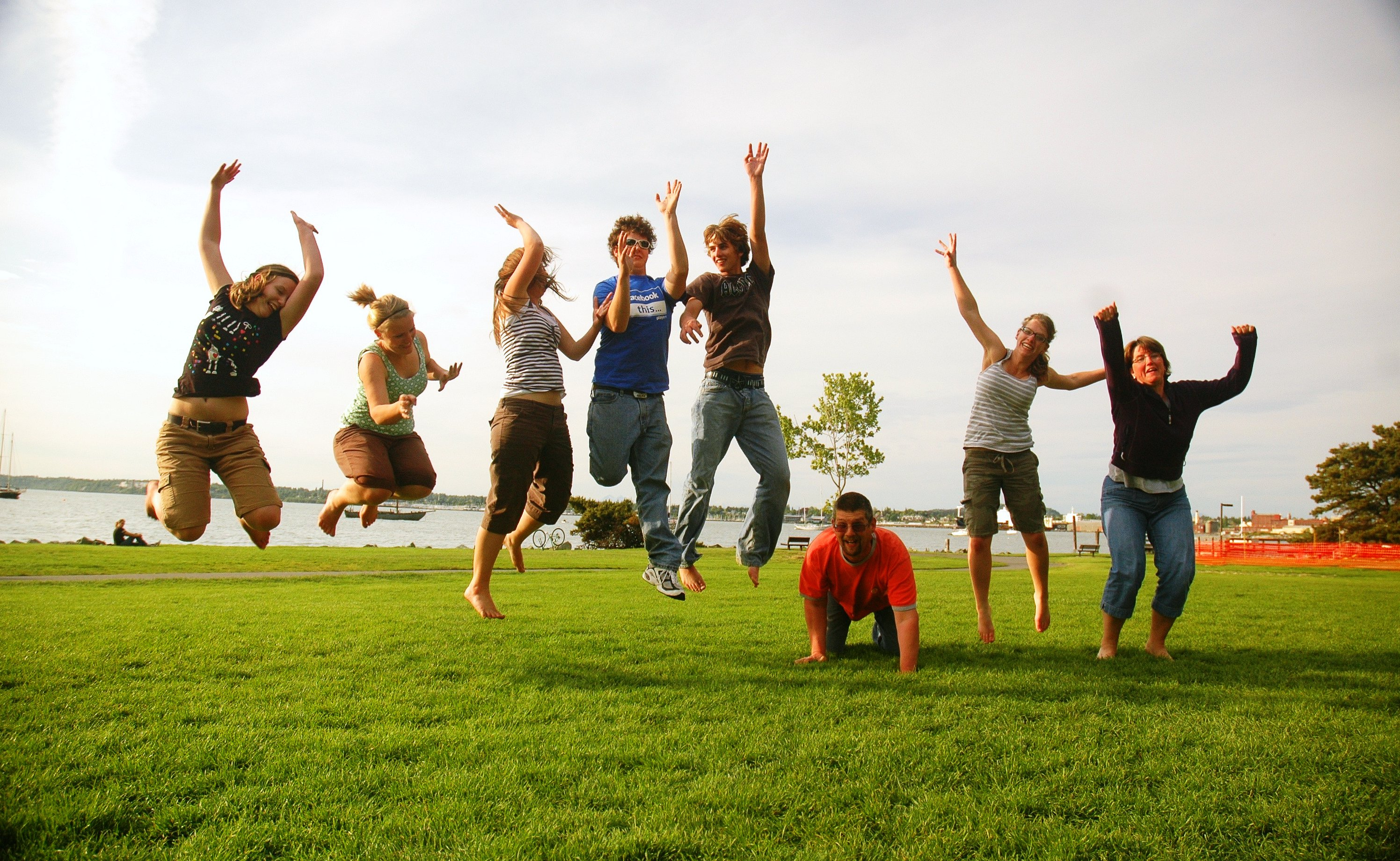 A large family having fun by the water.